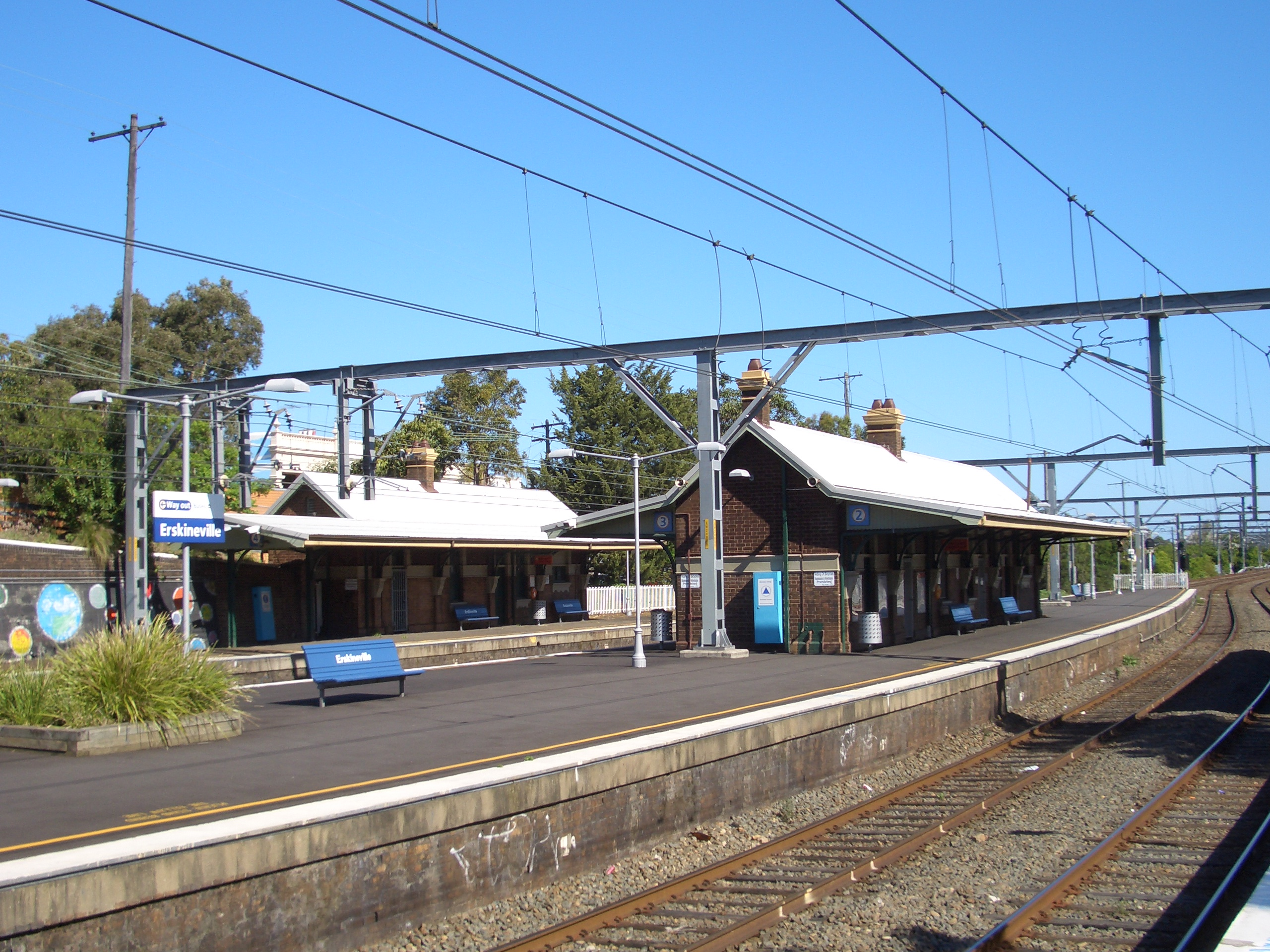 Erskineville Railway Station